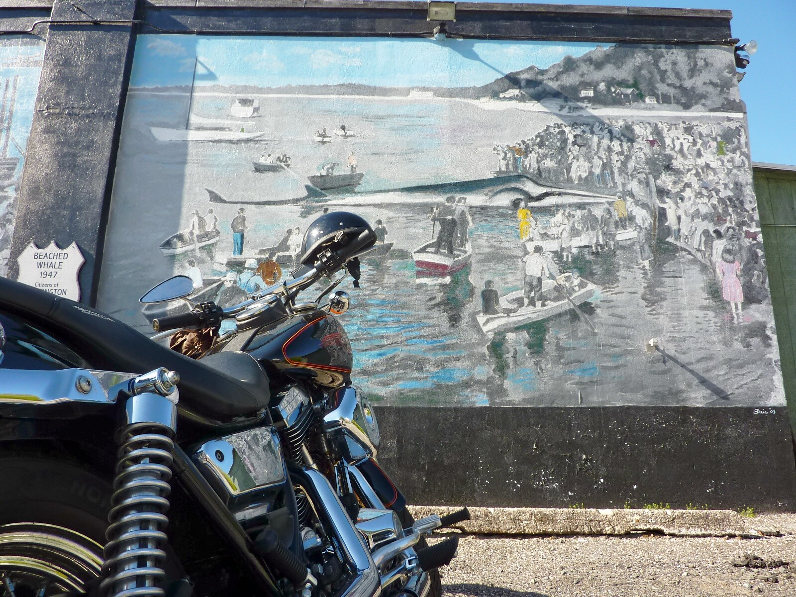 Old Town Hall Historic District, Main Street